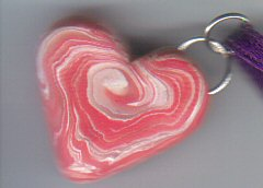 Liz Brimson, scanned image. I made it.